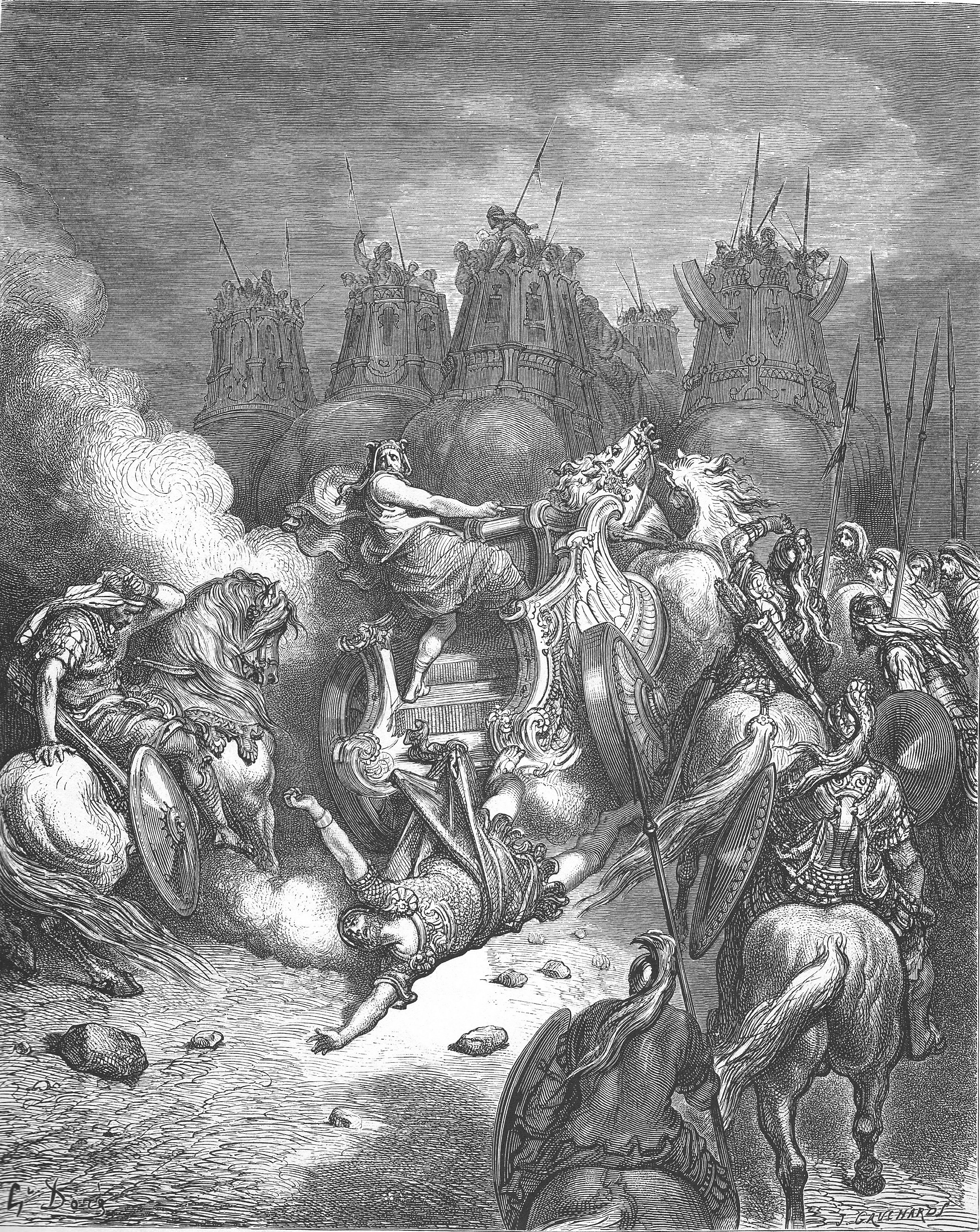 The Punishment of Antiochus (2 Мacc. 9:1-9)